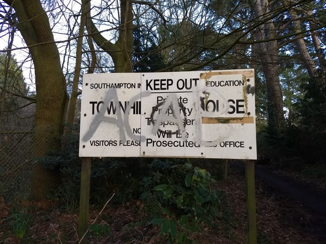 Entrance sign for former school at Townhill Park House